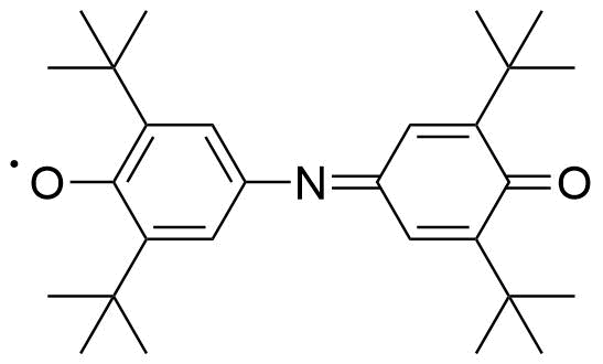 Indophenoxyl radical